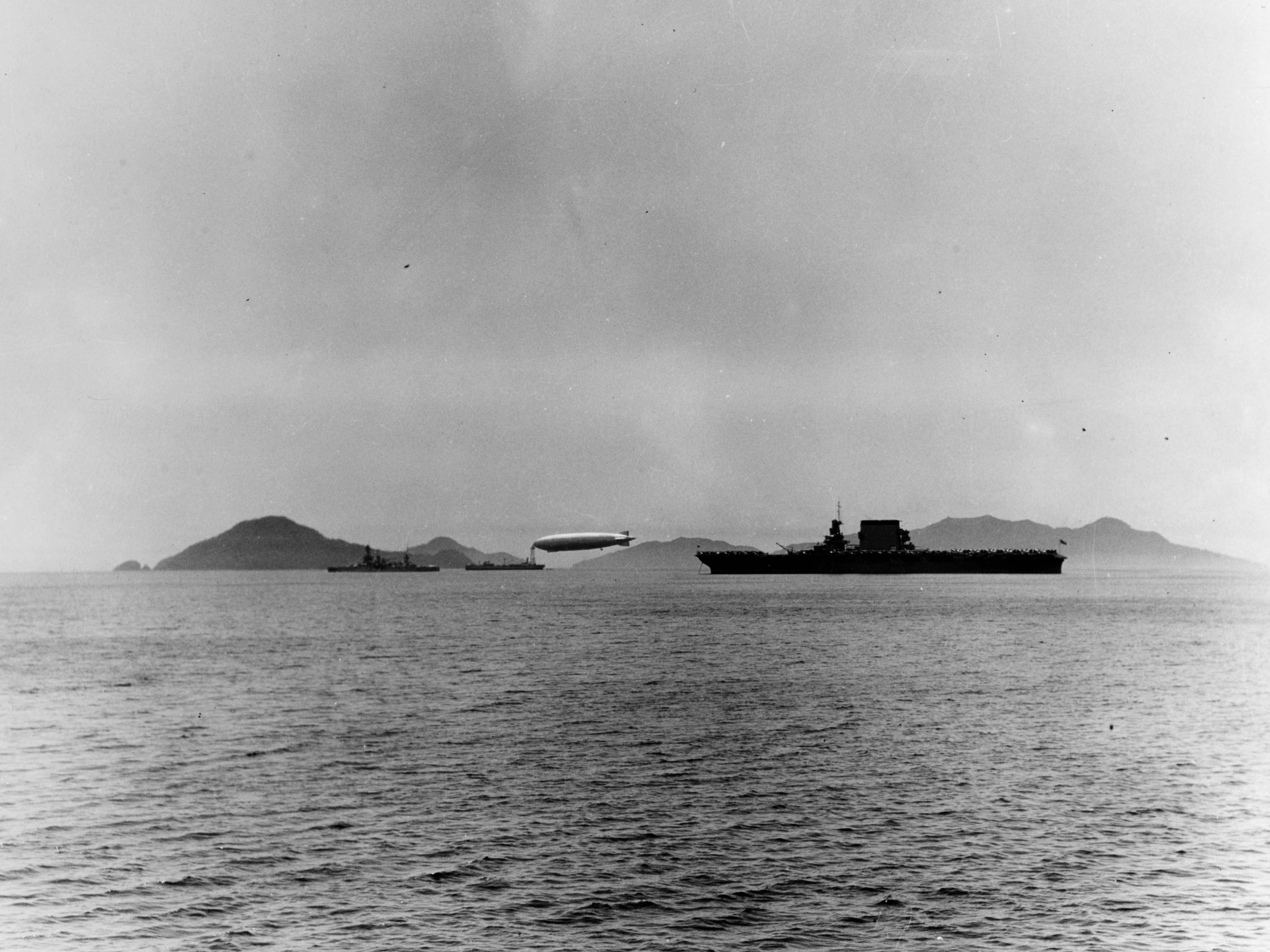 The U.S. Navy airship USS Los Angeles (ZR-3) (center distance) moored to the fleet oiler USS Patoka (AO-9) off Panama during Fleet Problem XII, circa February 1931. The aircraft carrier USS Lexington (CV-2), at right, and a battleship are also present.